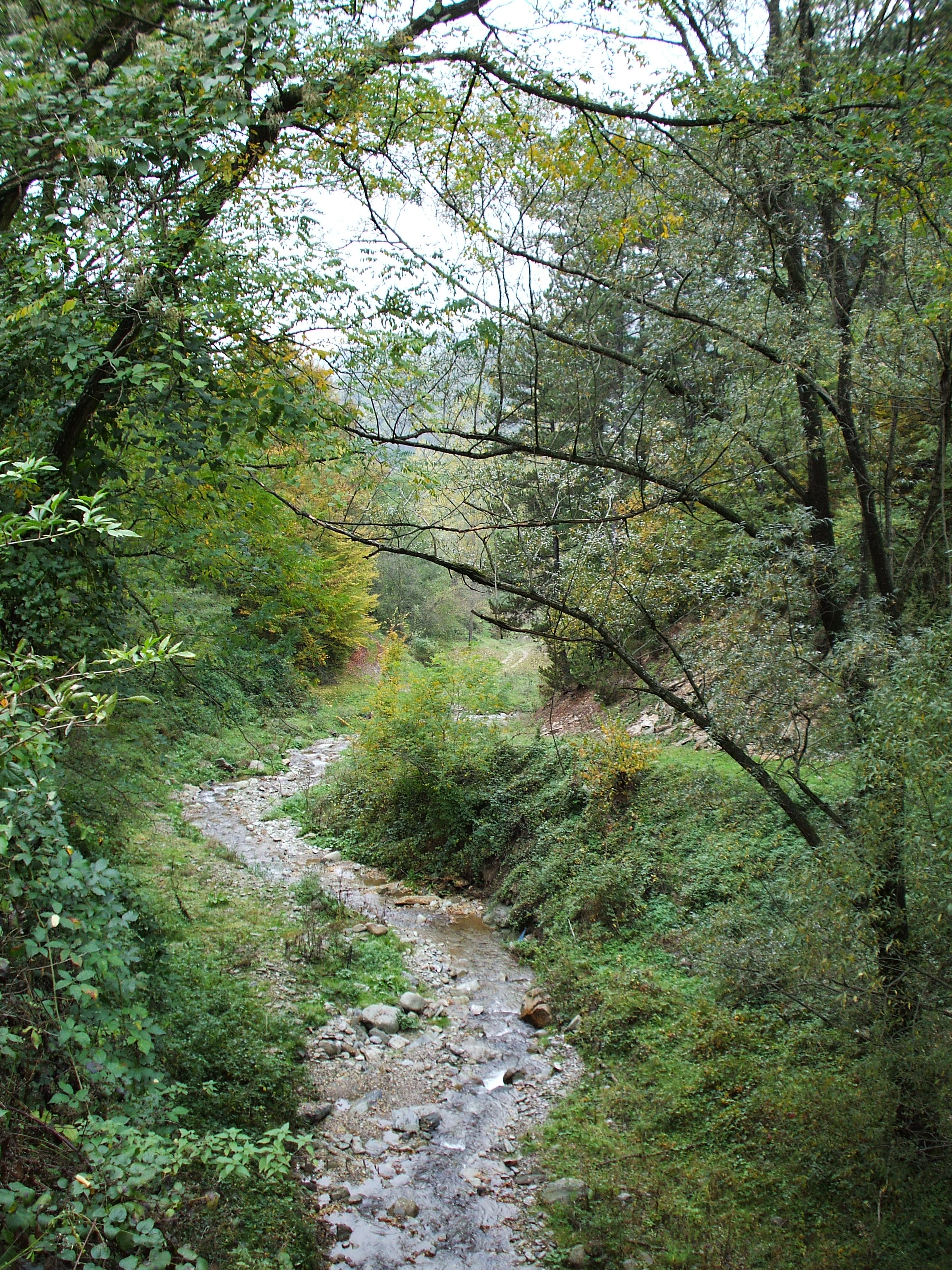 Stream in Leskovdol in Bulgaria — autumn time.